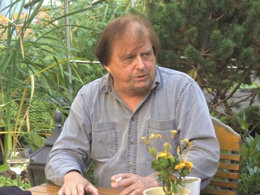 Gwynne Dyer, Canadian journalist, syndicated columnist and military historian.